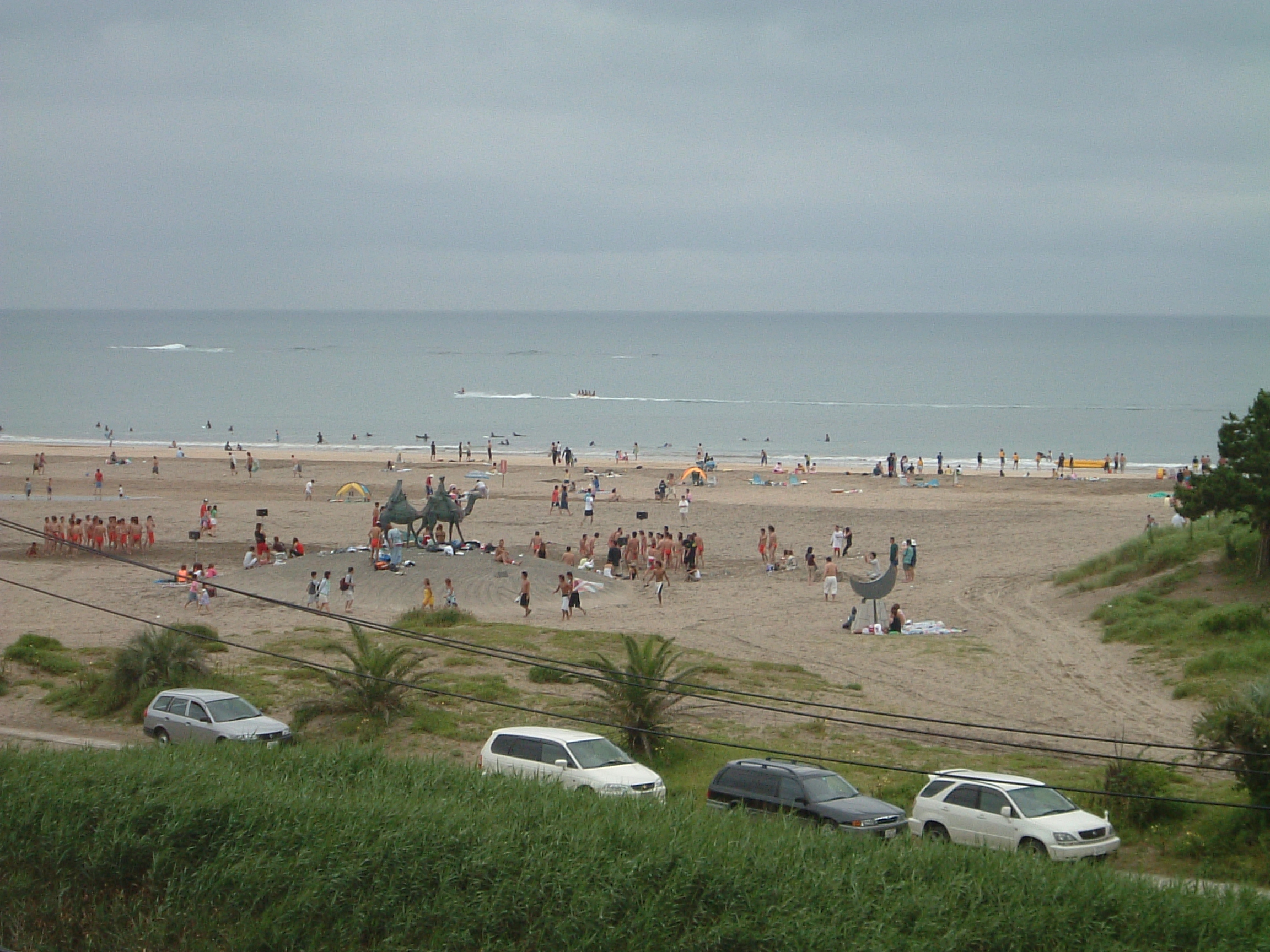 Onjuku Beach. The Camel and moon statues are visible.